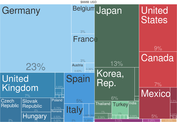 Car Exports by Country (2014)